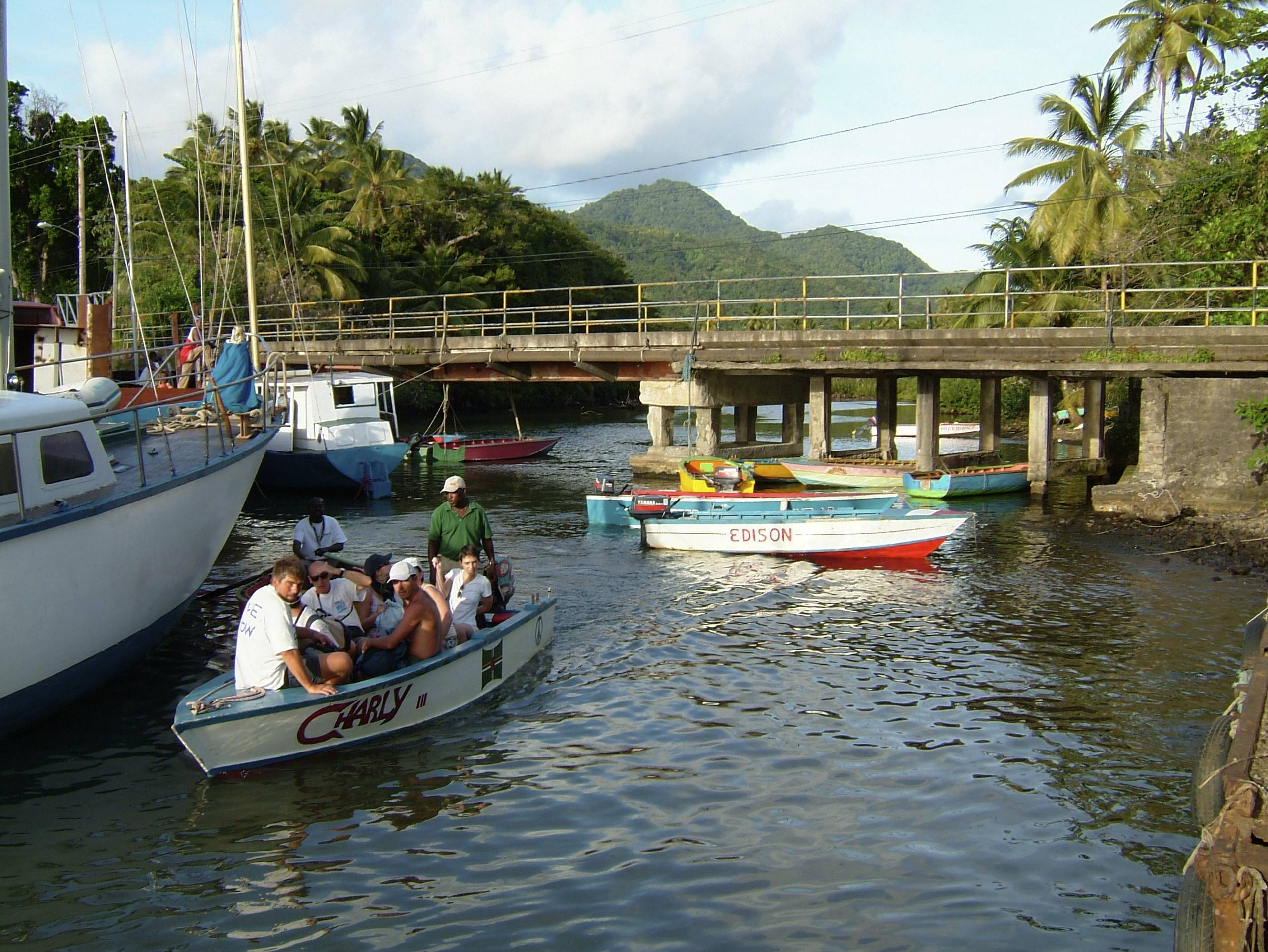 Indian River in Portsmouth, Dominica